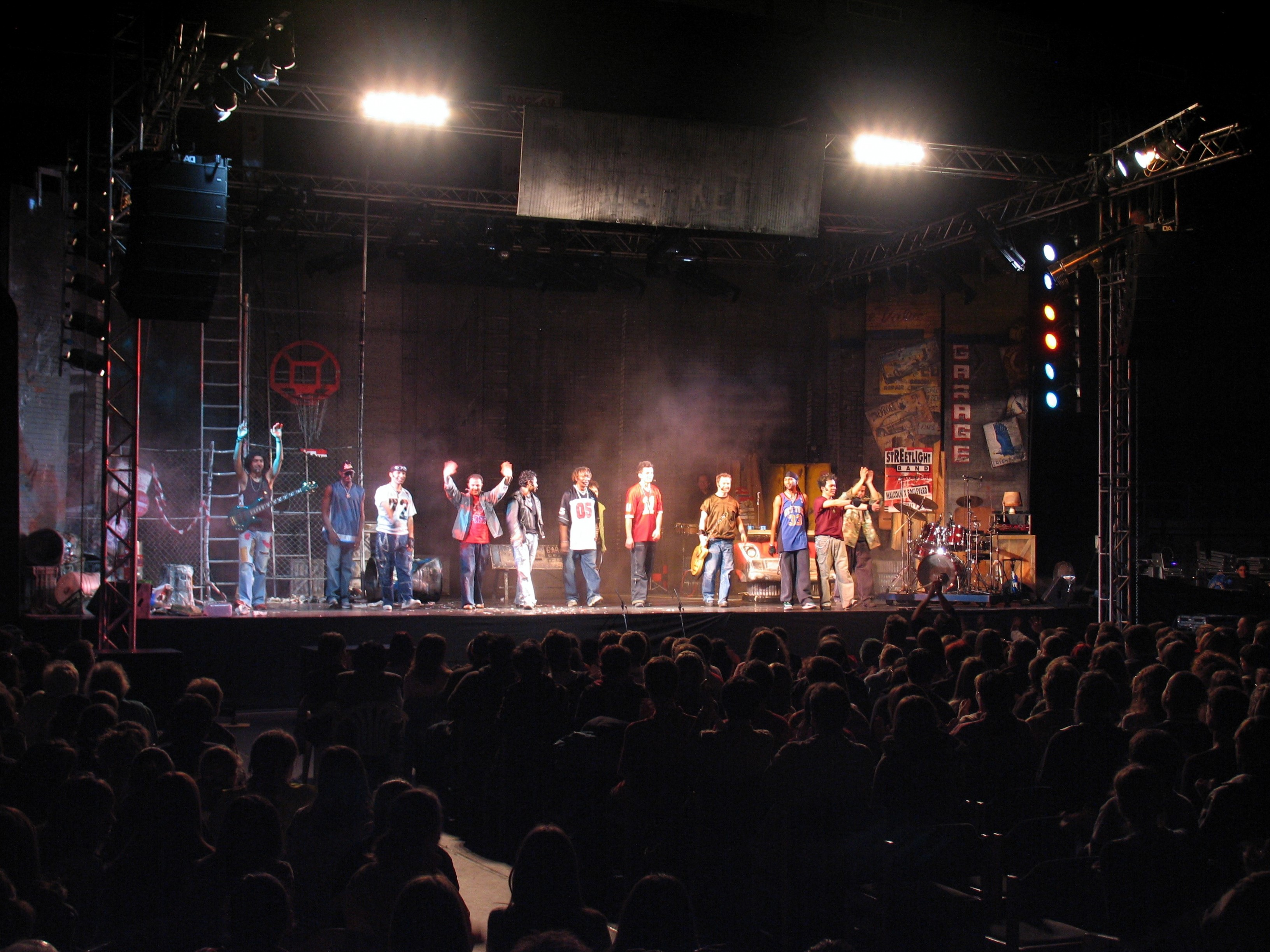 Gen Rosso live in Kecskemét, 2008